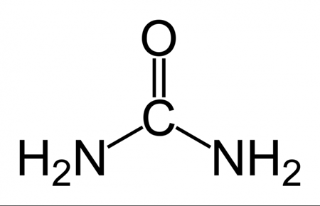 Хімічна структура сечовини (карбамід)